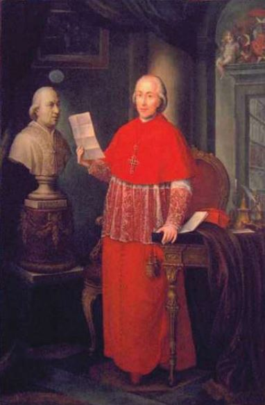 Cesare Brancadoro, cardinal of the Roman Catholic Church